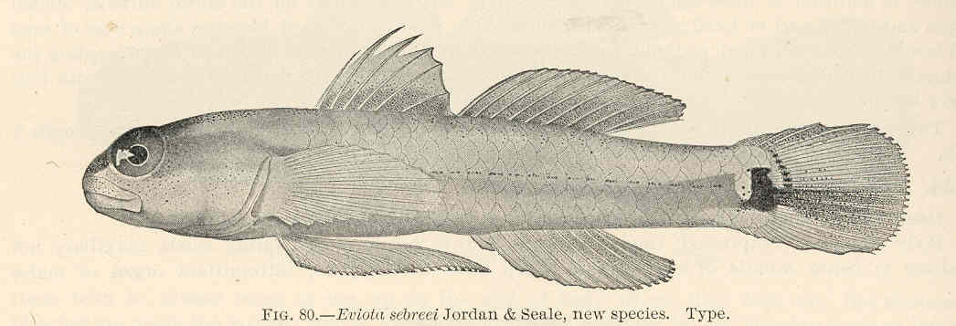 Eviota sebreei Jordan & Seale, new species. Type Subject: Eviota Tag: Fish